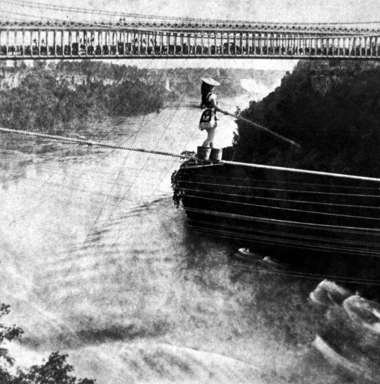 Maria Spelterini is walking across a tightrope across the Niagara Gorge, from the United States side to Canada, with her feet in peach baskets. In the background is the Niagara Suspension Bridge, which is full of spectators. In the distant background is the Niagara Falls.